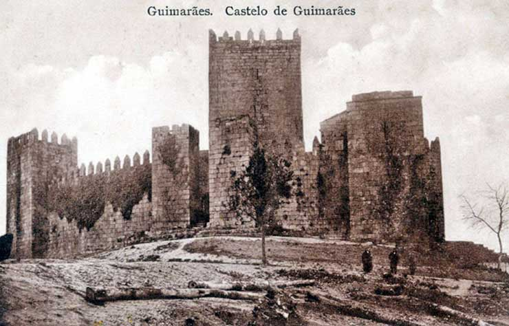 Postcard of Castle of Guimarães, around 1910